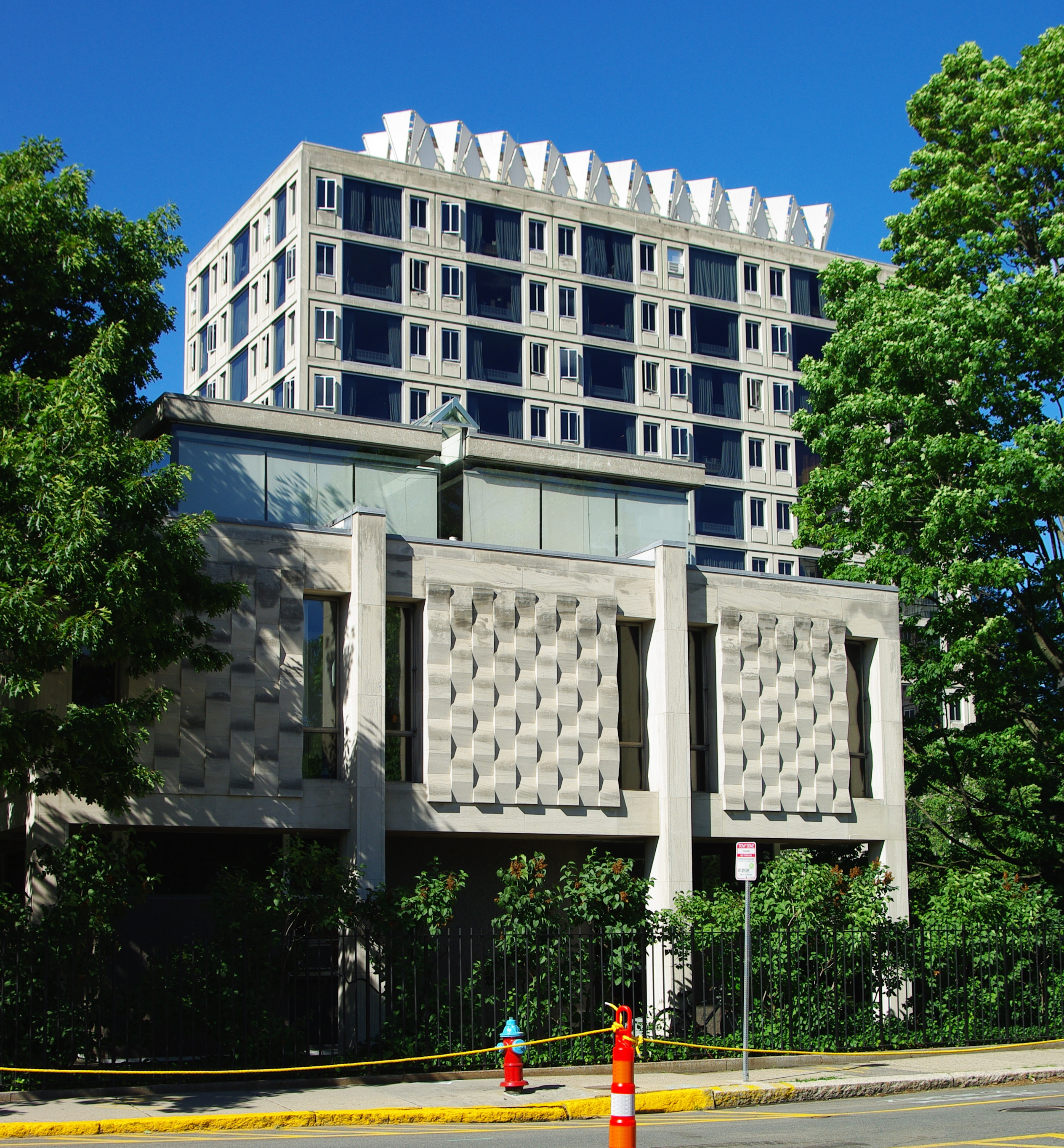 Leverett House (F Tower and Library), Harvard University